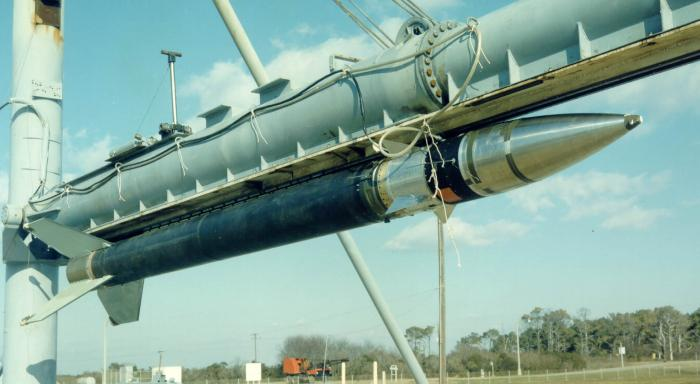 Black Brant VC sounding rocket